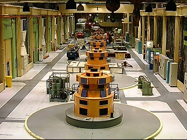 The main turbine room, inside the Manapouri Power Station in New Zealand.